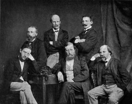 Photo of the Working Men's Society, London, circa 1868. From left to right: Edward Dannreuther, A. J. Hipkins, Walter Bache, Karl Klindworth, Fritz Hartvigson, W. Kumpel